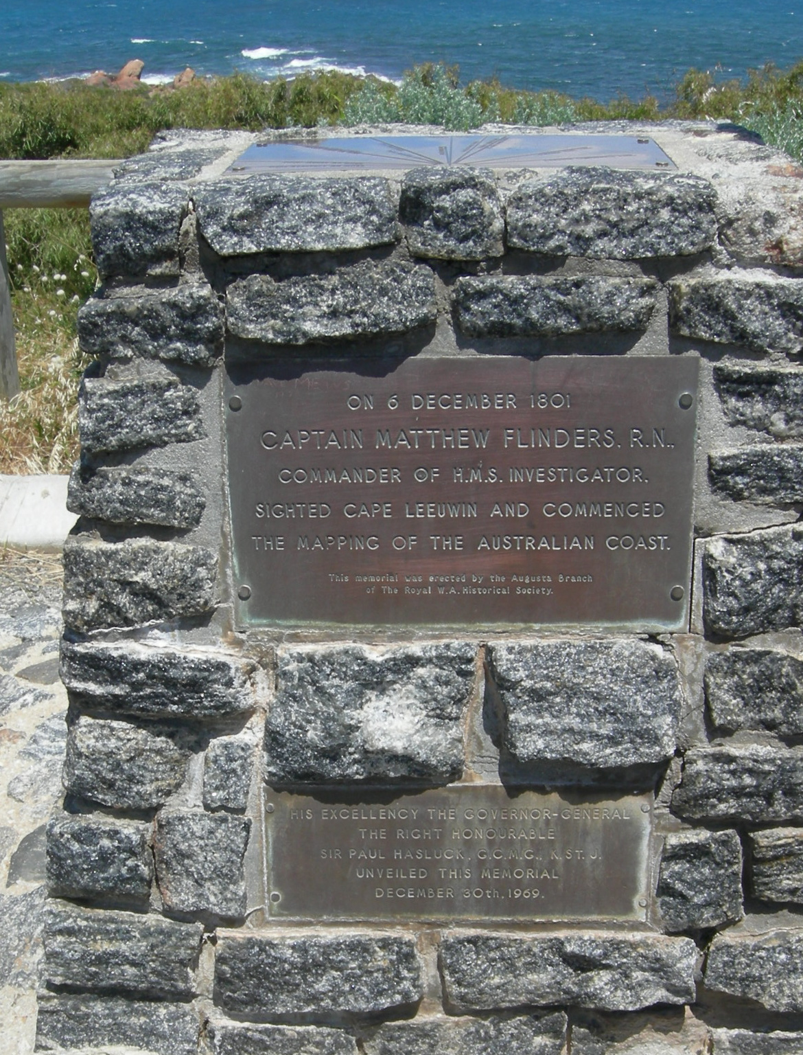 Commemorating the start of Matthew Flinders charting of Australian coastline - at the Point Matthew Lookout east of Cape Leeuwin, Western Australia